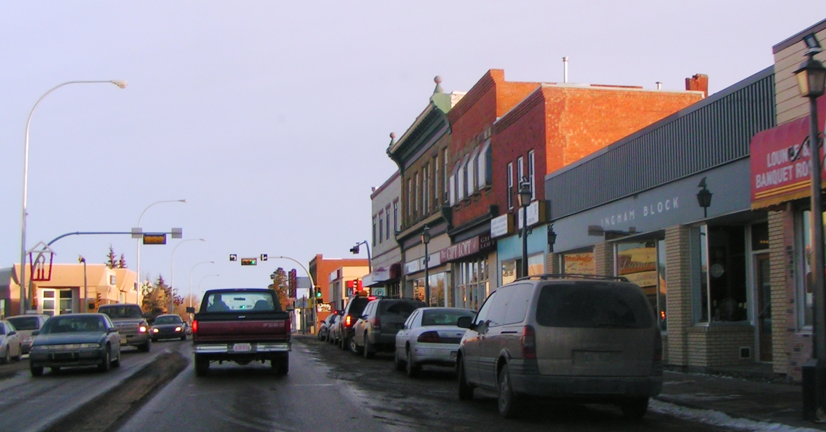 Main Street Innisfail, Alberta, Canada